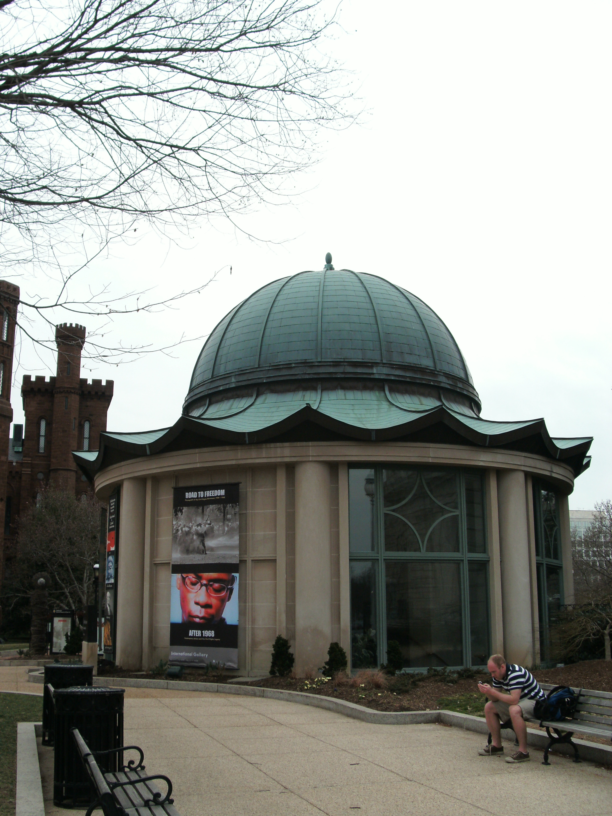 Image I took for Wikipedia